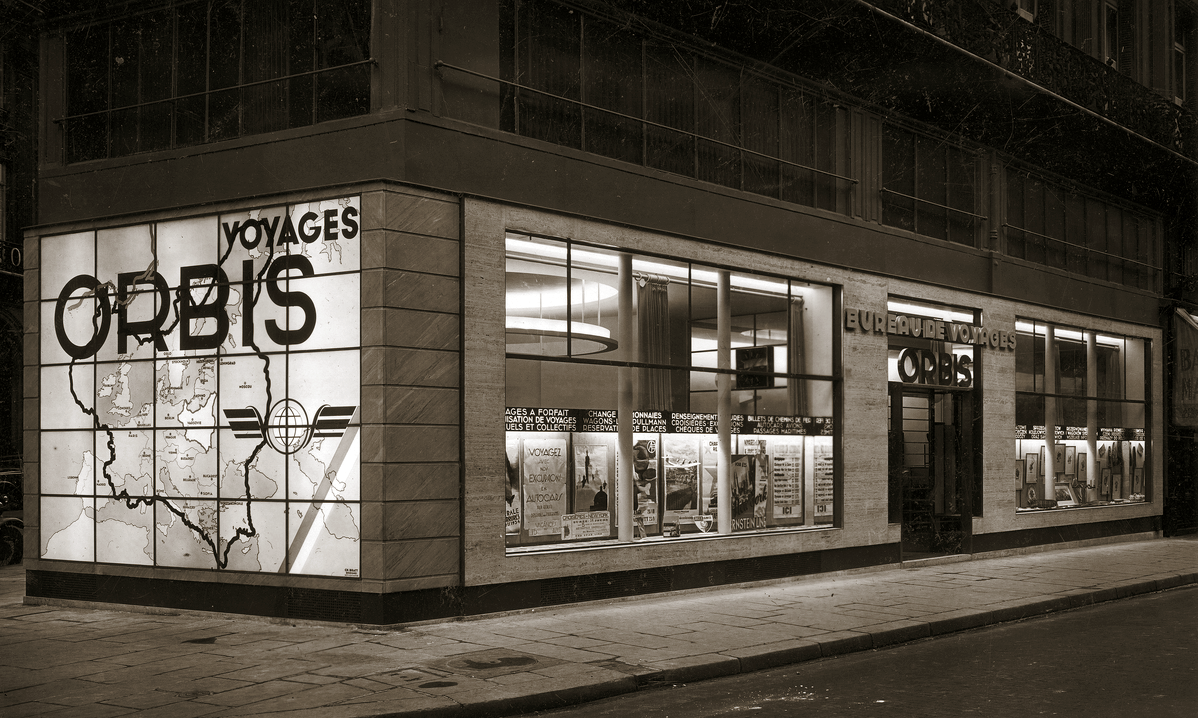 Office od Orbis travel agency in Paris 1934